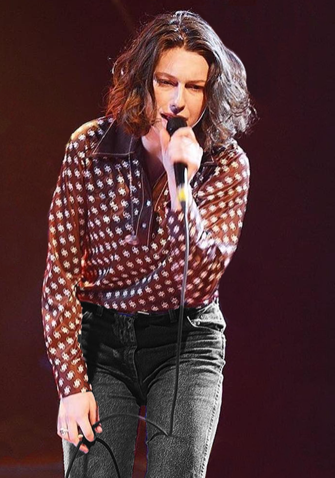 KP during her tour in September 2018